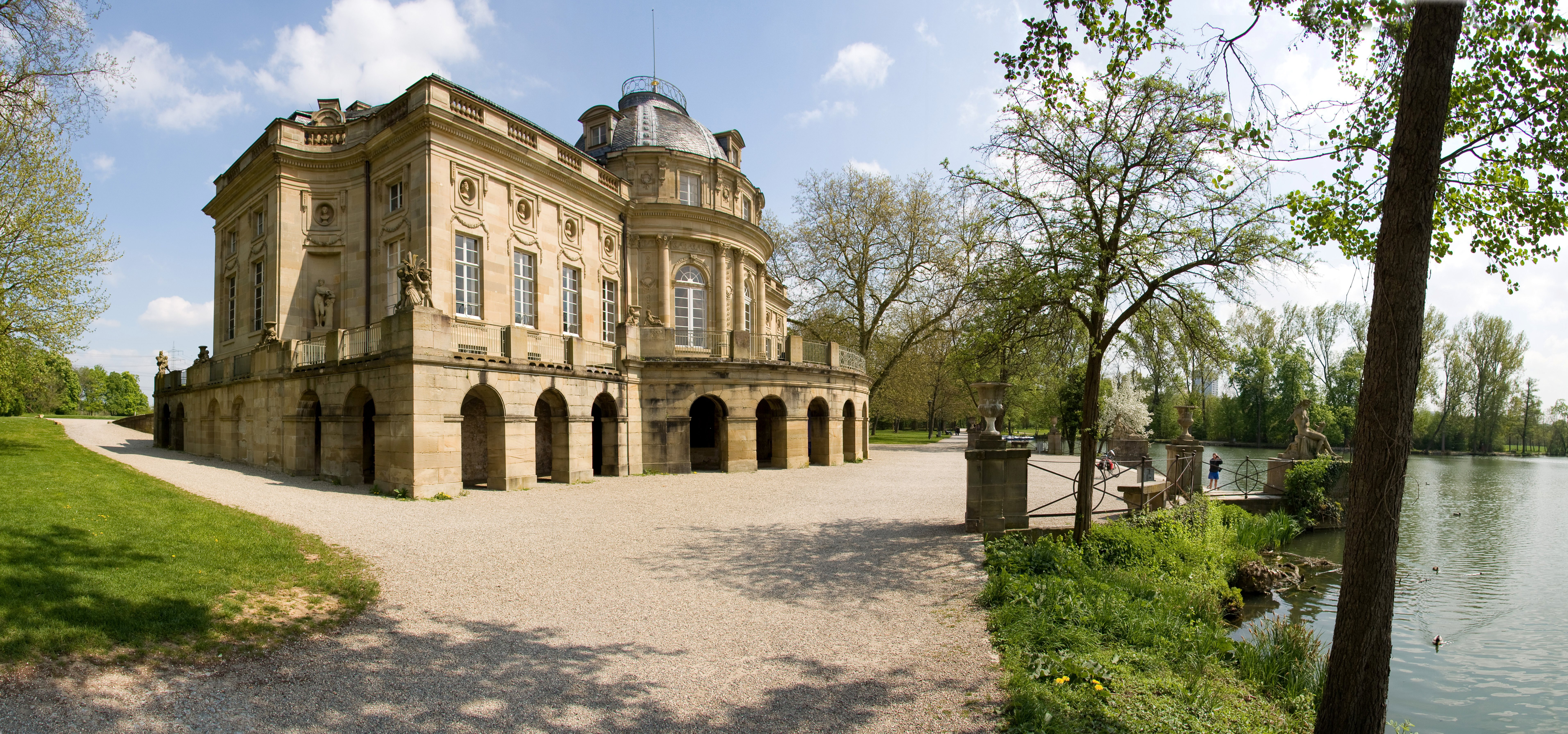 Palace Monrepos in Ludwigsburg, Germany. Photo taken from west.